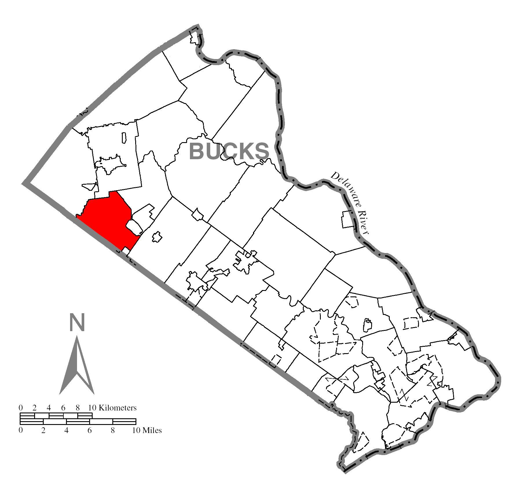 A map of Bucks County showing West Rockhill Township, Pennsylvania (alternate) highlighted on the map.